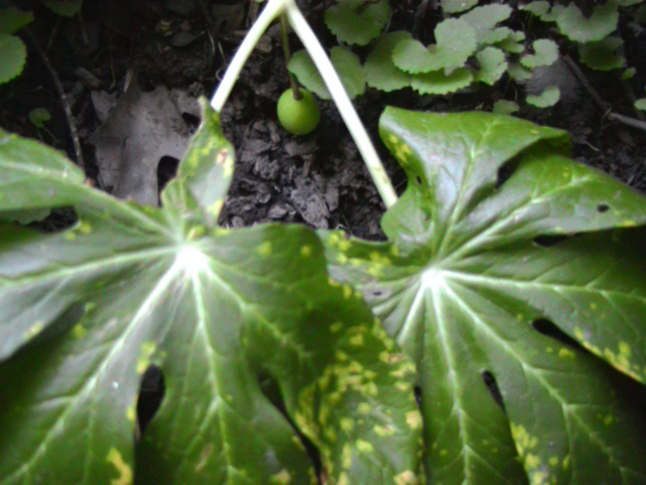 A May apple.